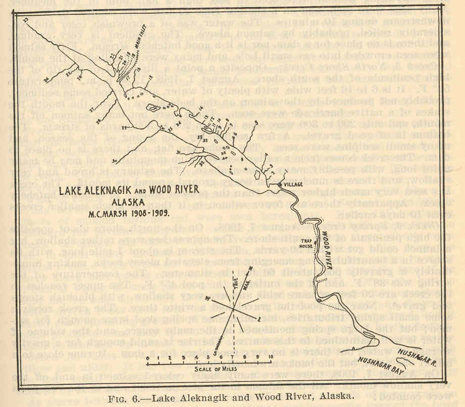 Lake Aleknagik and Wood River, Alaska Subject: Aleknagik Lake (Alaska)--Maps, Wood River (Alaska)--Maps Geographic Subject: United States--Alaska--Aleknagik Lake, United States--Alaska--Wood River Tag: Coasts